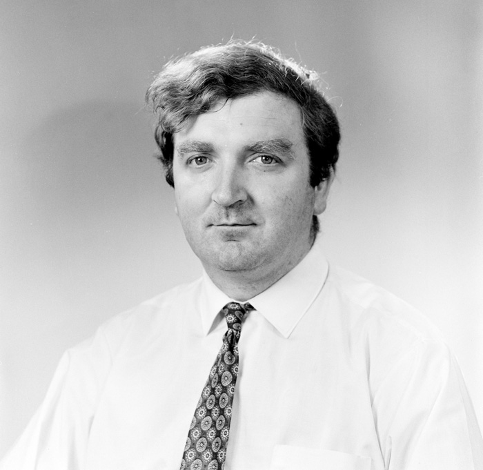 Australian writer Dick Hall, during his time as press secretary to federal ALP leader Gough Whitlam